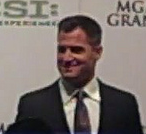 Actor George Eads is California, USA